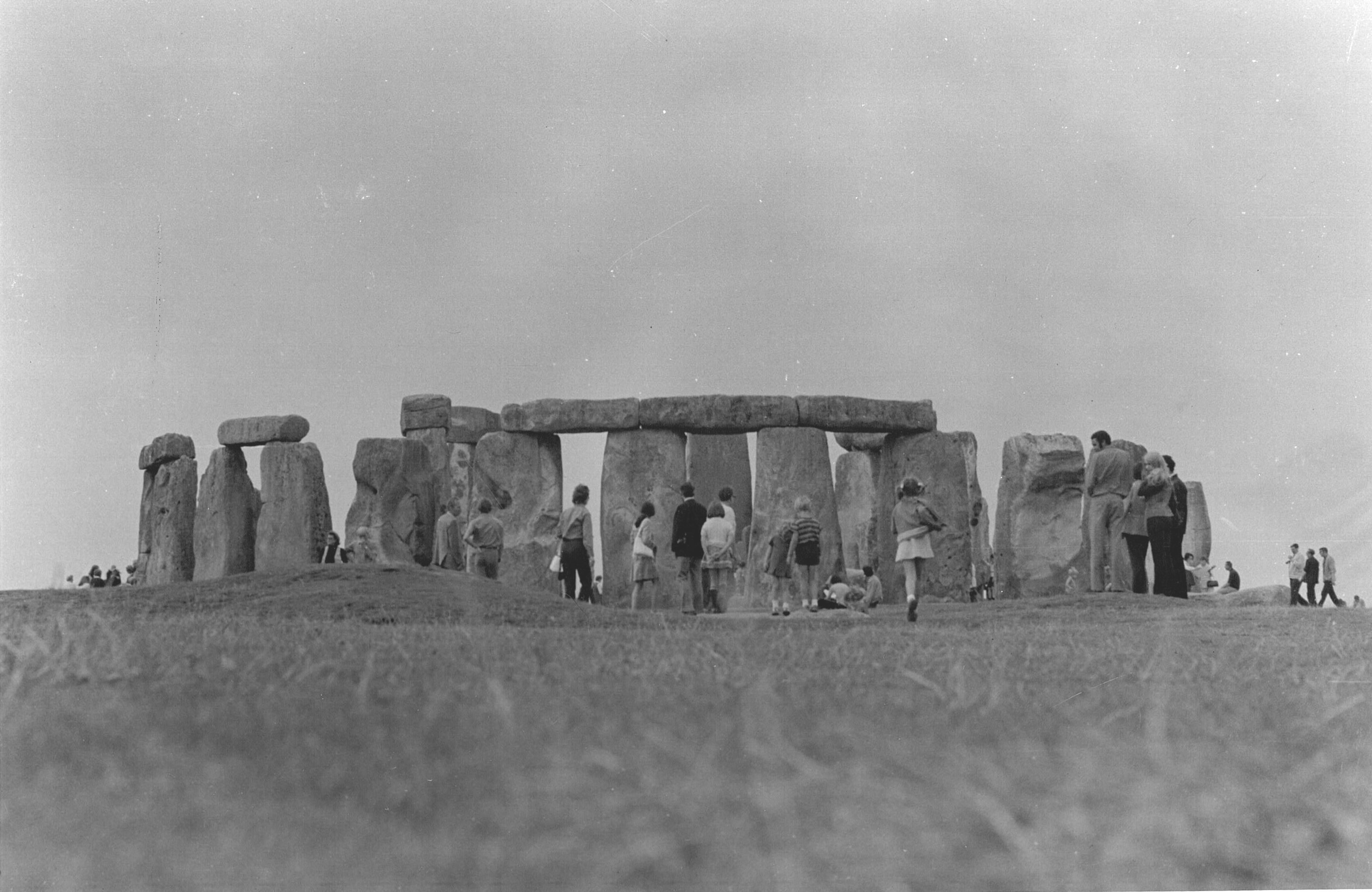 Photograph taken at a time when visitors could roam at will